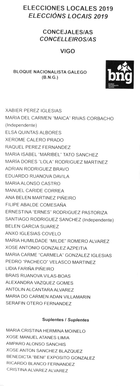 See title.